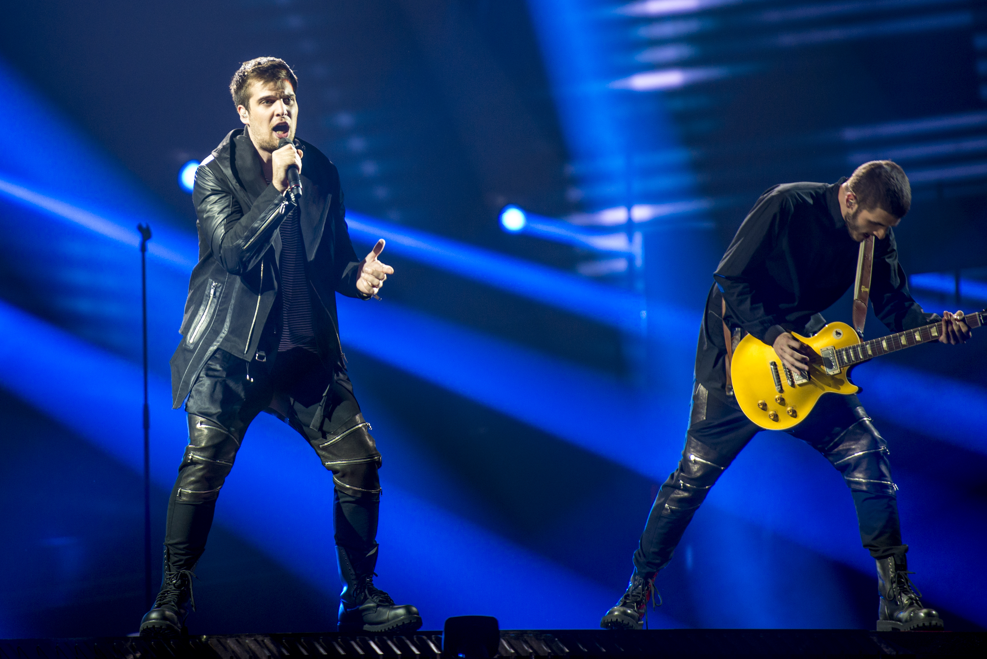 Highway representing Montenegro with the song "The Real Thing" during a rehearsal before the first semi final of the Eurovision Song Contest 2016 in Stockholm. (Help translate this text)